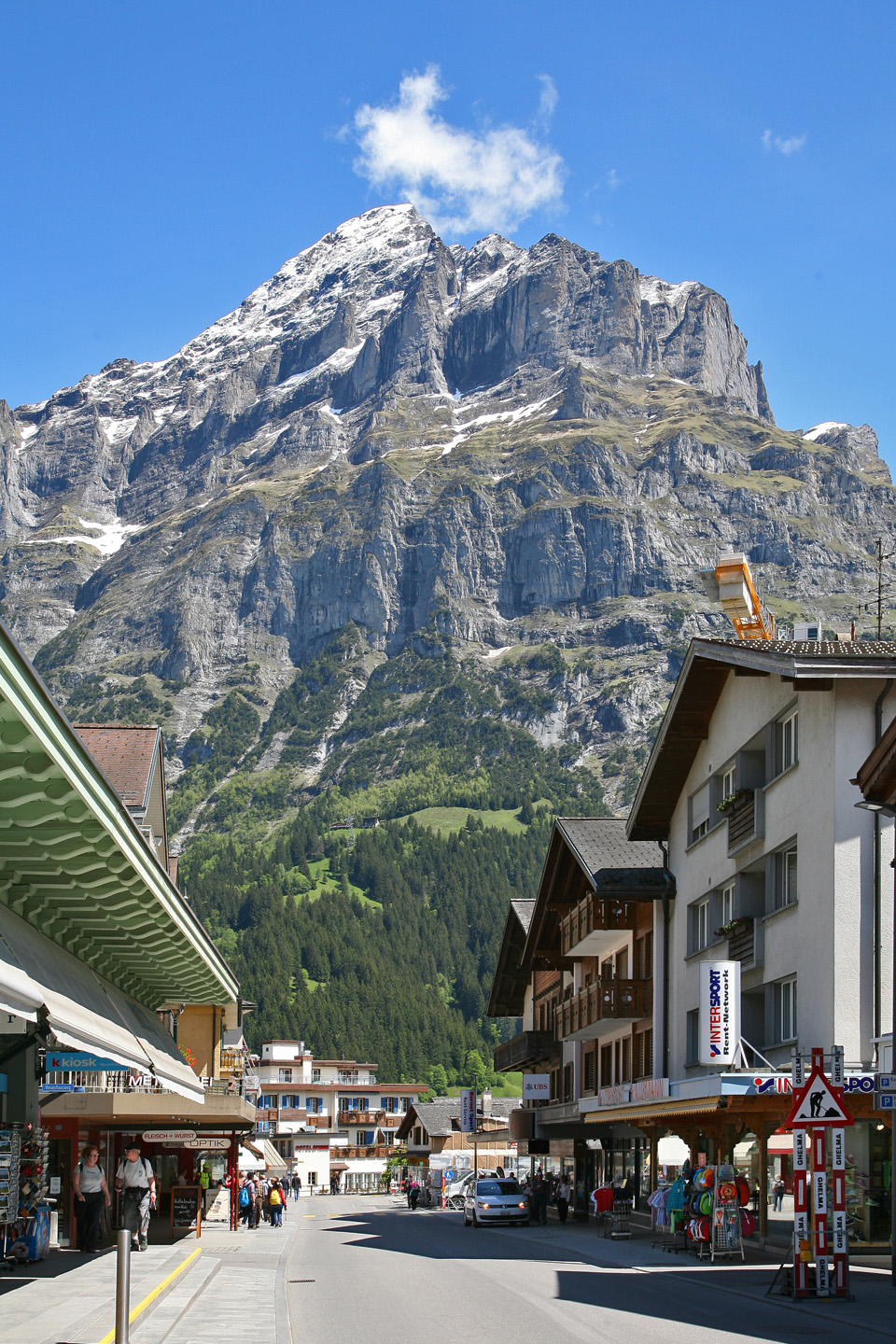 Grindelwald, a place in the canton of Berne in Switzerland. A holiday resort with impressive mountain scenery: Wetterhorn, Schreckhorn, Eiger, Mönch and Jungfrau.